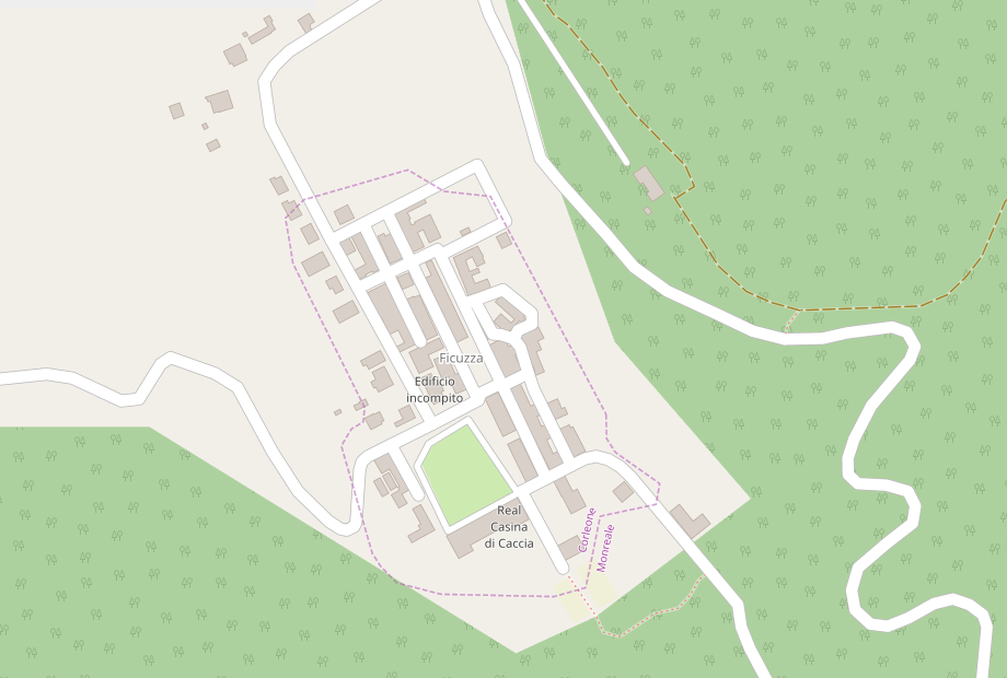 This map may be incomplete, and may contain errors. Don't rely solely on it for navigation.